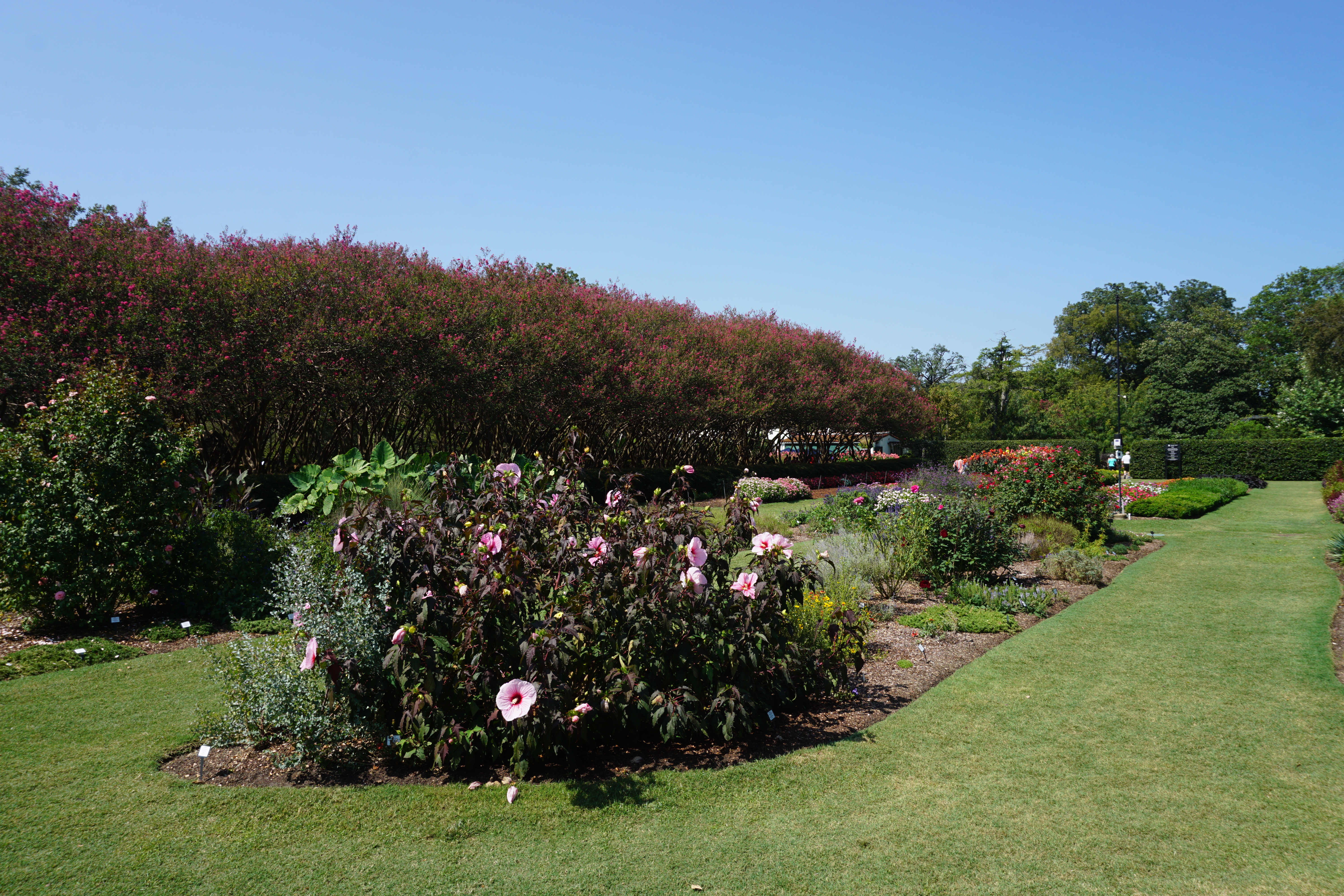 The Trial Gardens at the Dallas Arboretum and Botanical Garden in Dallas, Texas (United States).